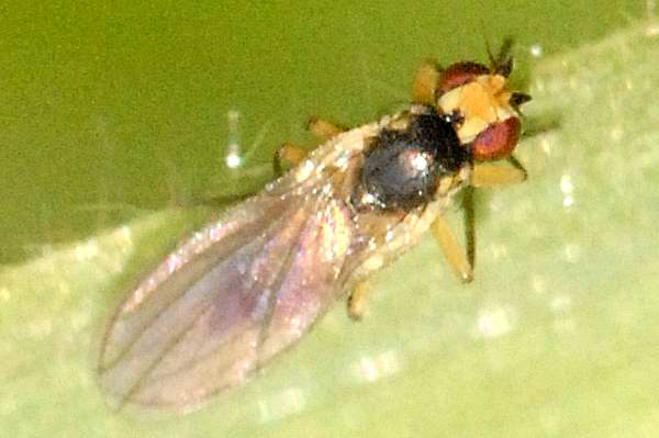 Cryptonevra flavitarsis from Commanster, Belgian High Ardennes .